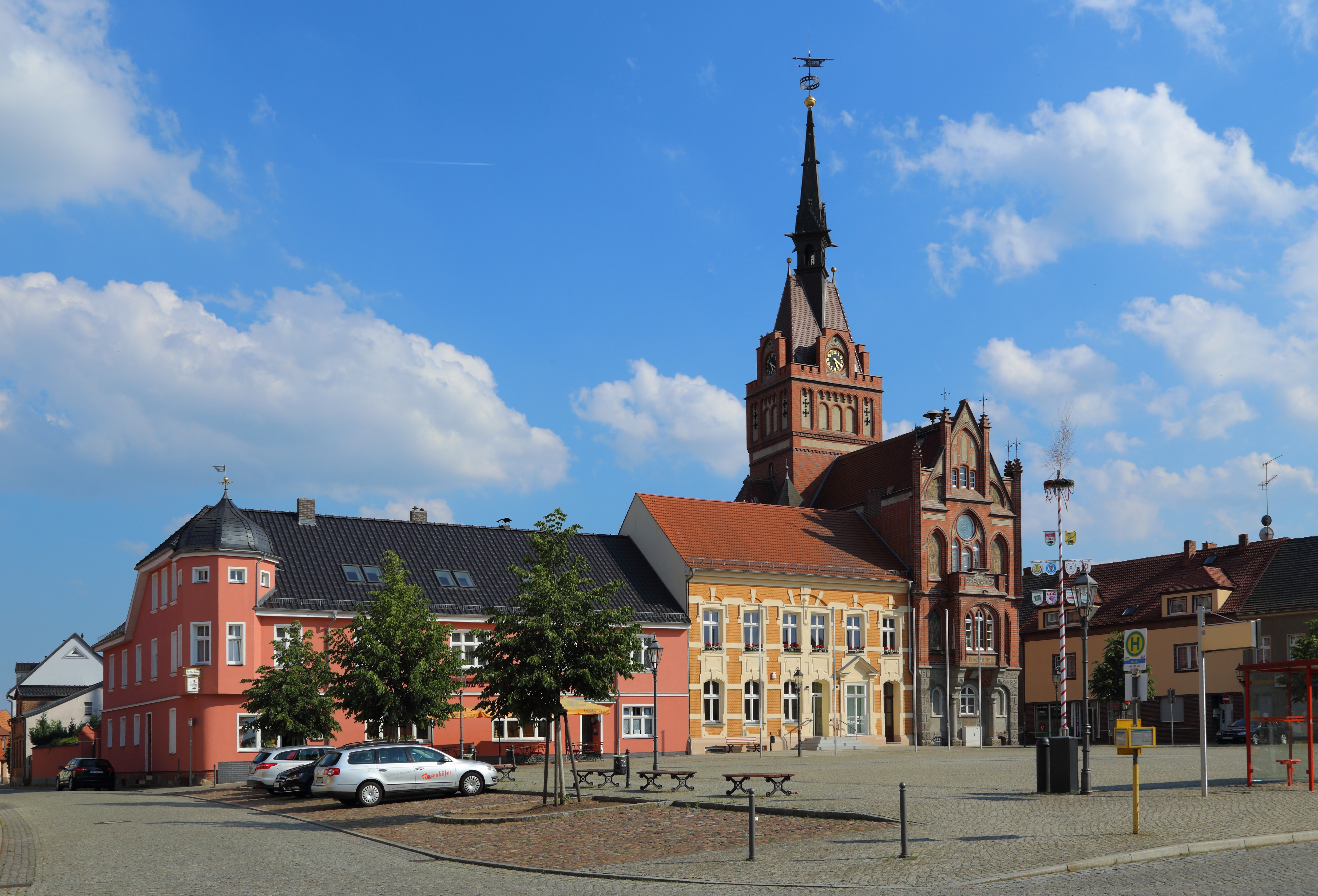 The Market Square (Markt) of Golßen, Landkreis Dahme-Spreewald, Brandenburg, Germany. The building with the tower is the Town Hall, a listed cultural heritage monument.